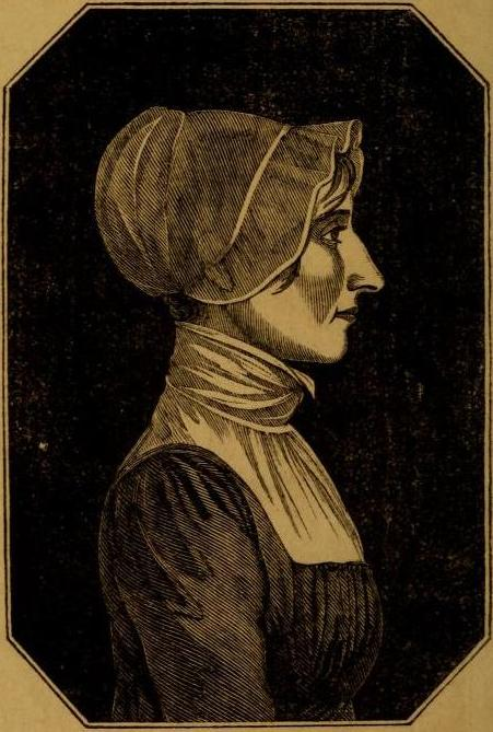 Peggy Dow, aged 35. Frontispiece, Lorenzo Dow. Quintessence of Lorenzo’s Works. Philadelphia, 1816.